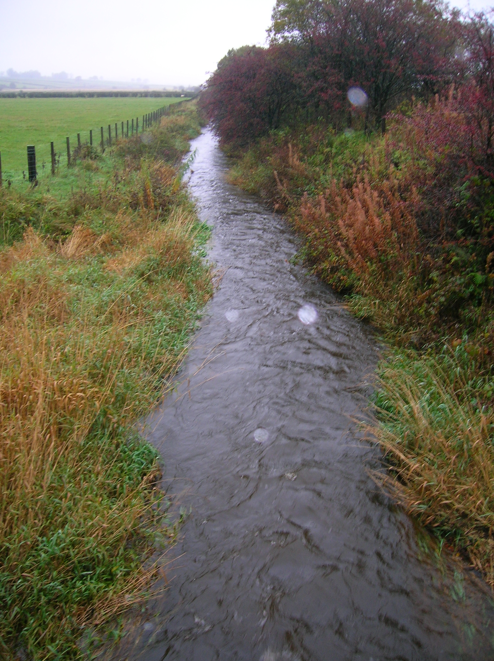 The Dubbs Water at Kerse Bridge, Kilbirnie Loch, North Ayrshire, Scotland